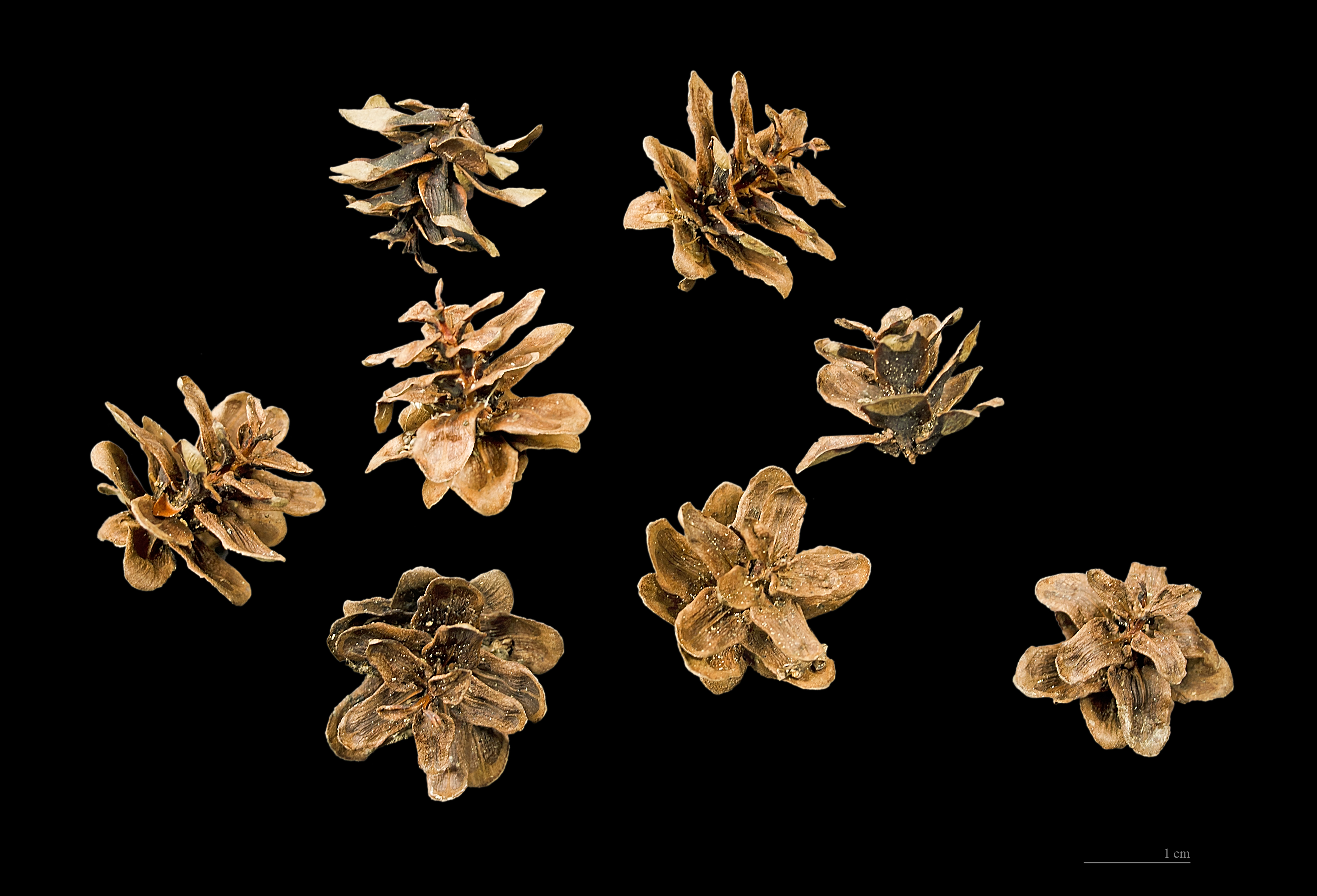 Western hemlock. Conifer cones.